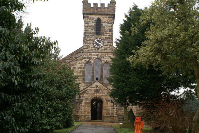 Emmanuel Church, Bistre. Beside the A494 Buckley-Mold road